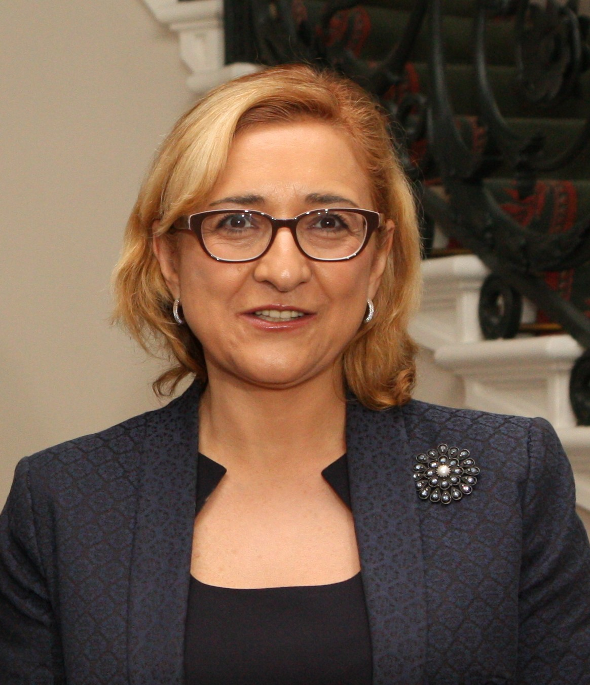 Minister for Europe David Lidington with Tamar Beruchashvili, Georgian Foreign Minister at the UK Georgia Bilateral Dialogue in London, 19 November 2014.